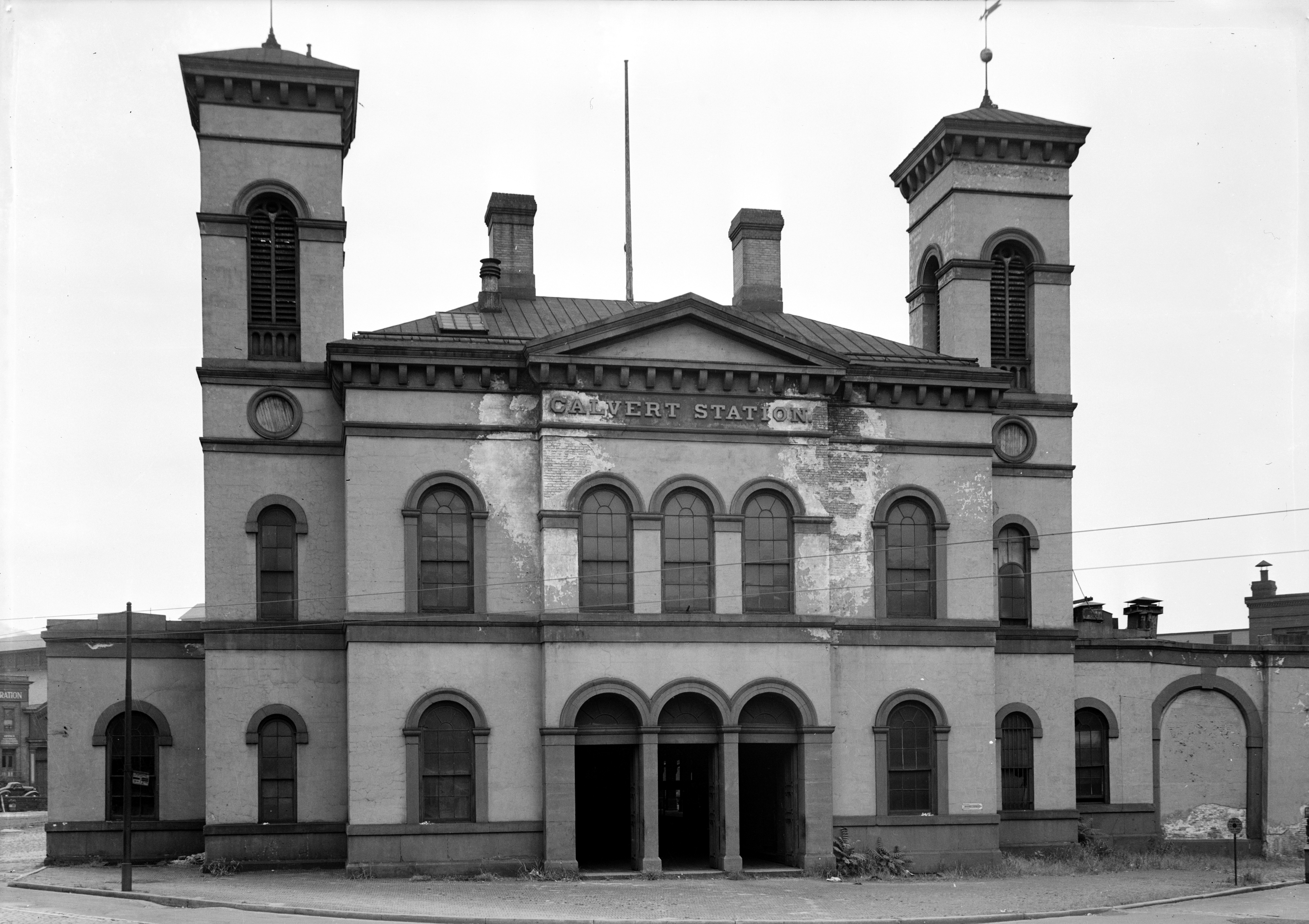 View of Calvert Station, Baltimore, Maryland, USA. Built 1849-50 by the Baltimore and Susquehanna Railroad (later the Northern Central Railway), James Crawford Neilson (1817-1900), architect. The station was demolished c. 1948.